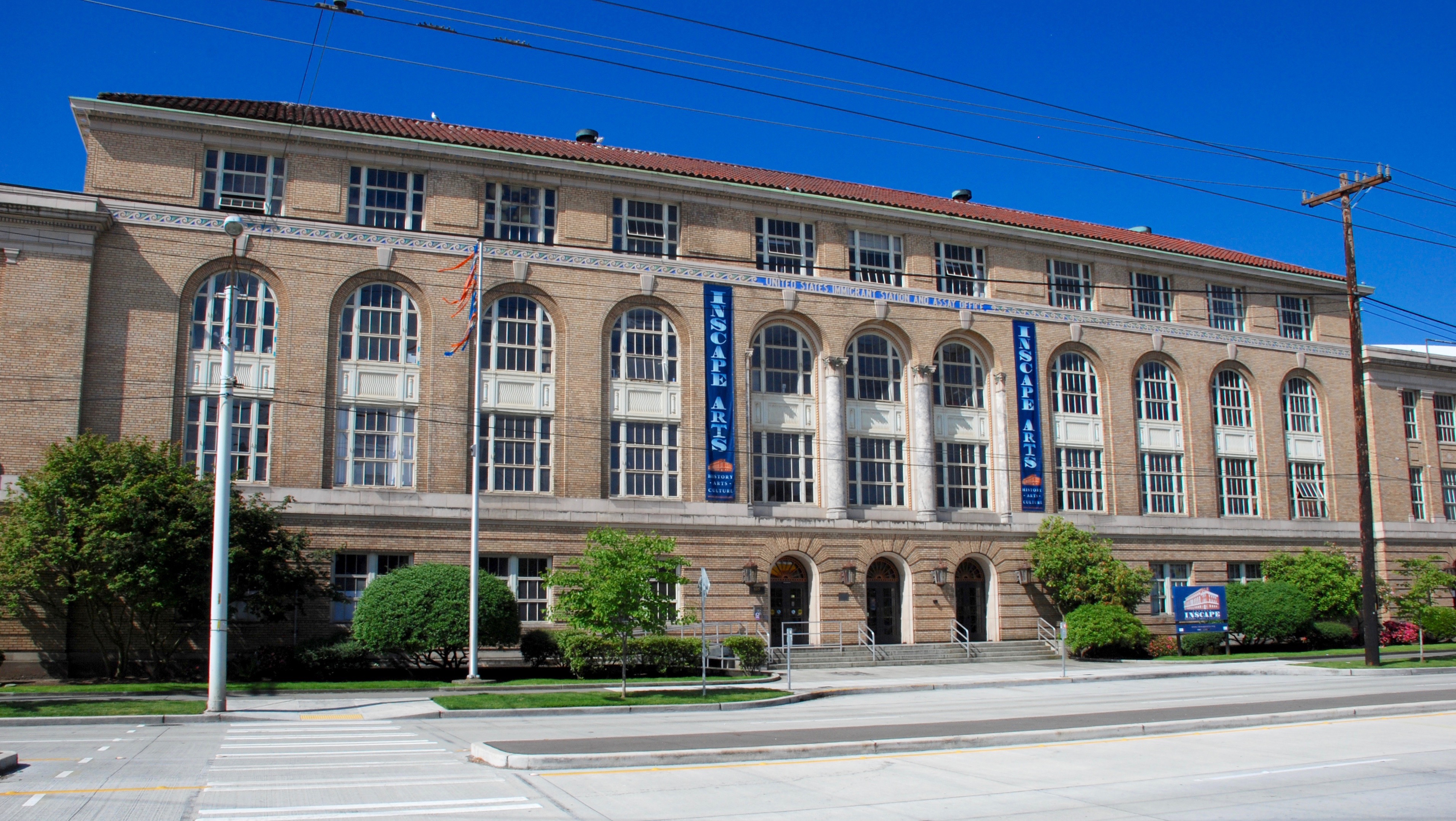 The former U.S. Immigrant Station and Assay Office, Seattle, on Airport Way South.